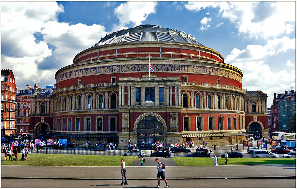 Royal Albert Hall, London, England.